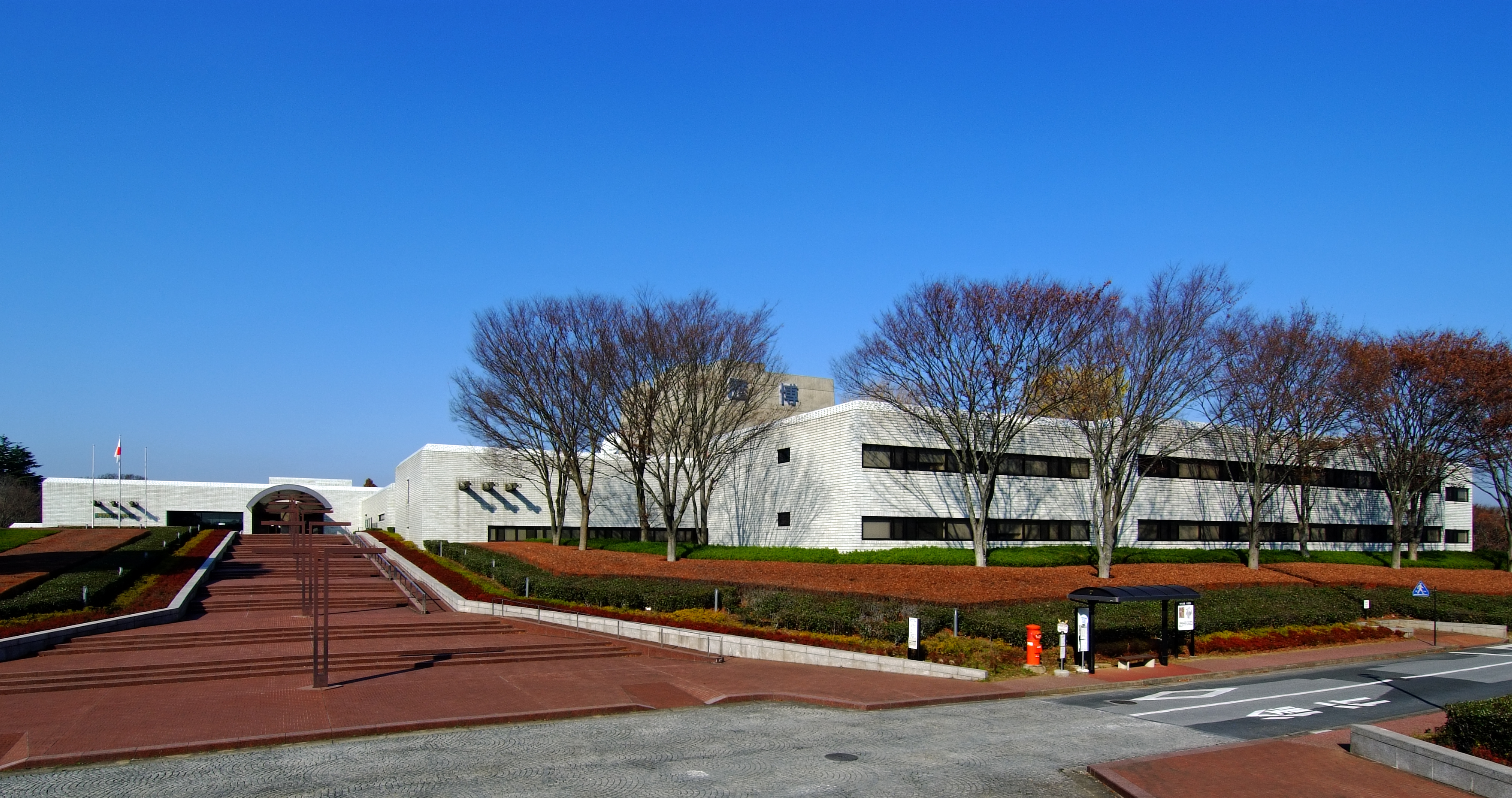 National Museum of Japanese History, Sakura Chiba Japan, designed by Yoshinobu Ashihara in 1980.